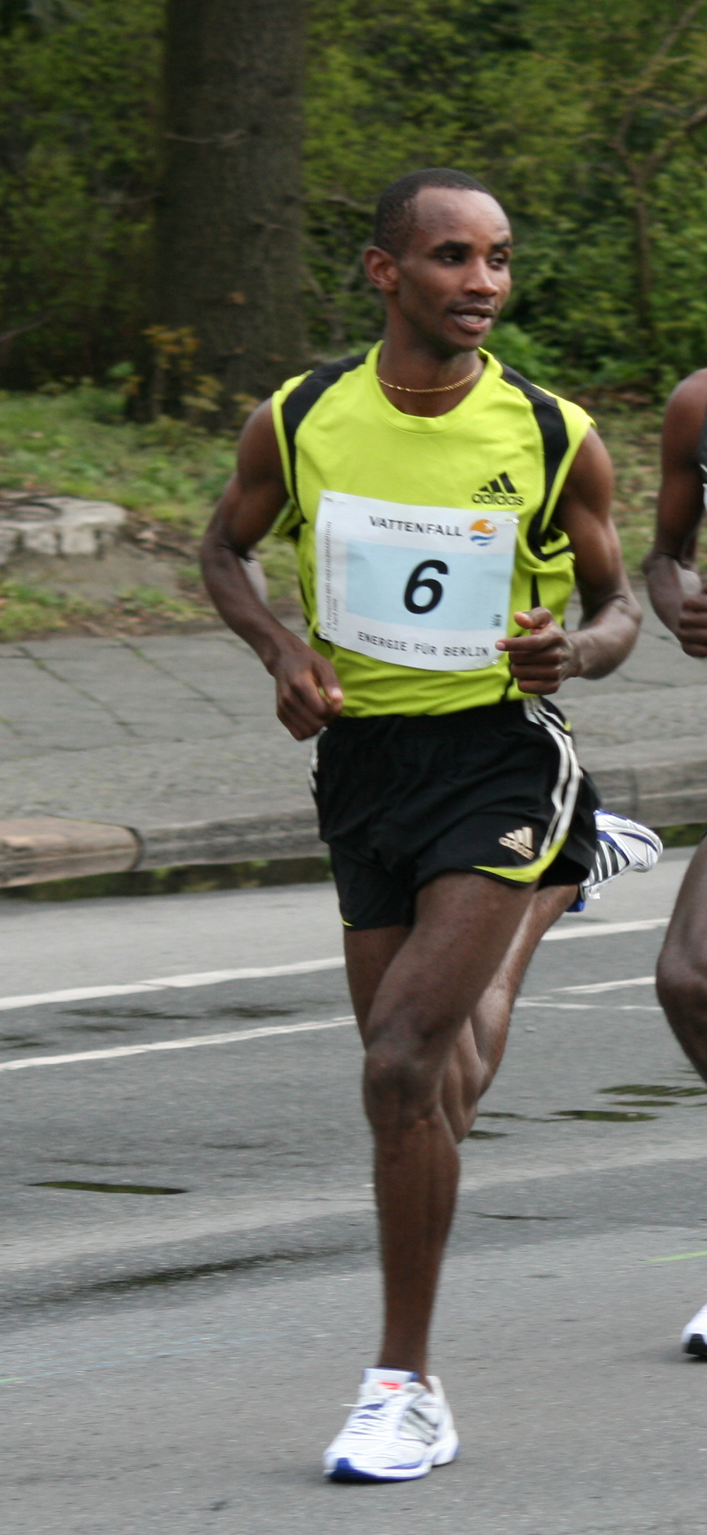 Isaac Wanjohi Macharia at the Berliner Halbmarathon 2008